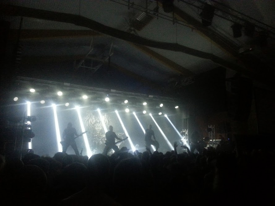 Meshuggah in Iceland